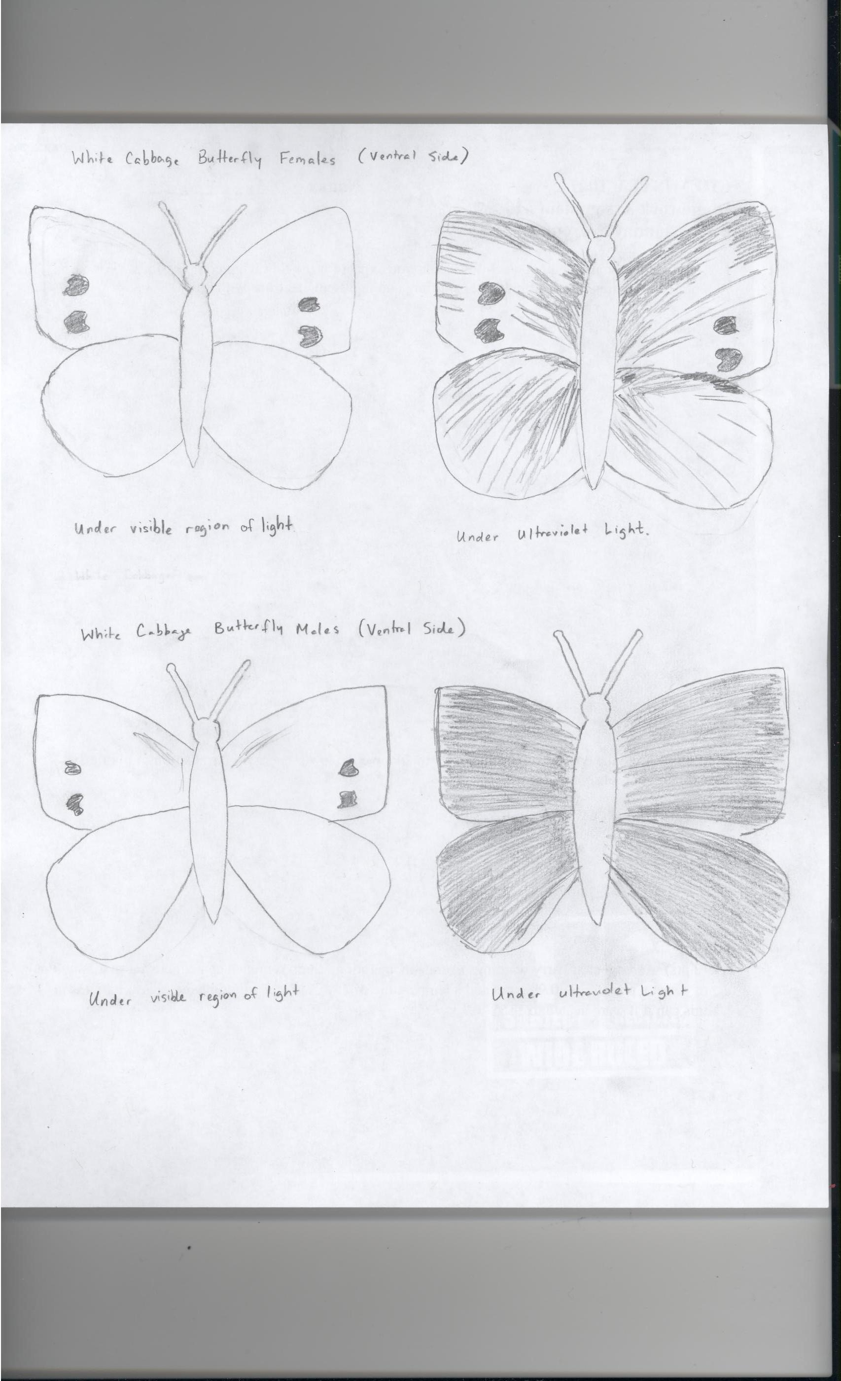 Drawings of the White Cabbage Butterfly under ultraviolet region and visible region of the electromagnetic spectrum.